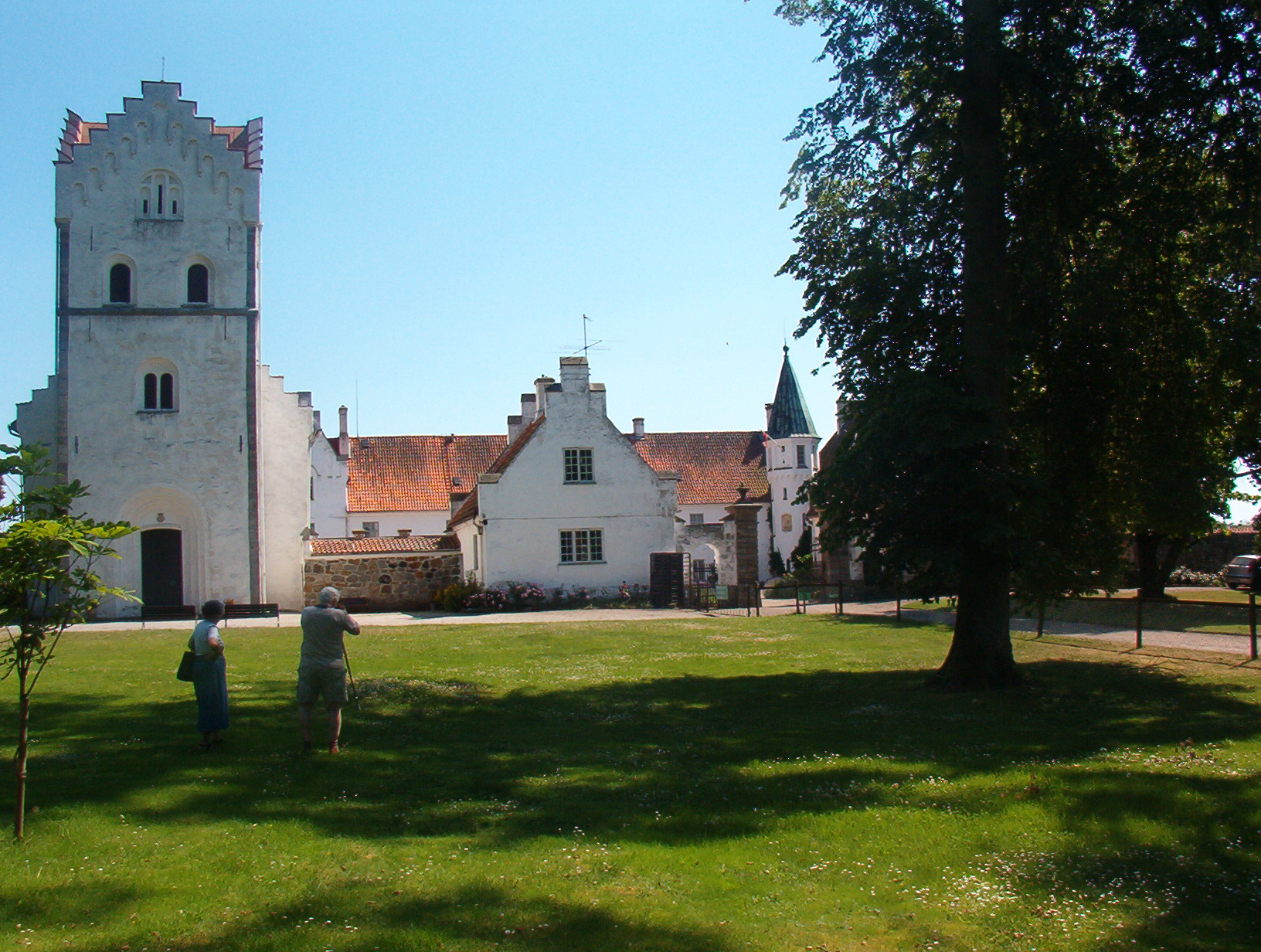 Bosjökloster castle adjacent to lake Ringsjön, in Höör Municipality, Skåne, southern Sweden, Date: July 2005